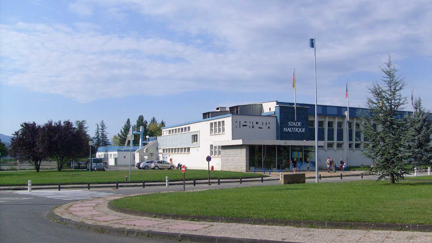 Swimming pool( Gap, Hautes-Alpes)